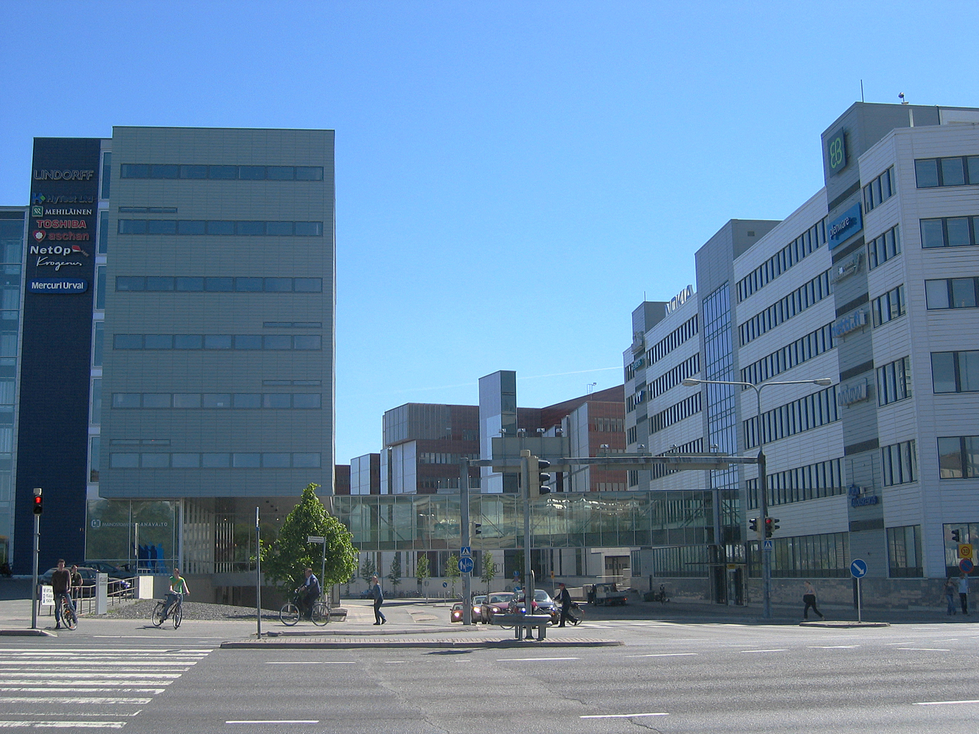 Some office buildingsin Turku Science Park, Finland. From left to right: Intelligate 1, ICT-building and Euro City.